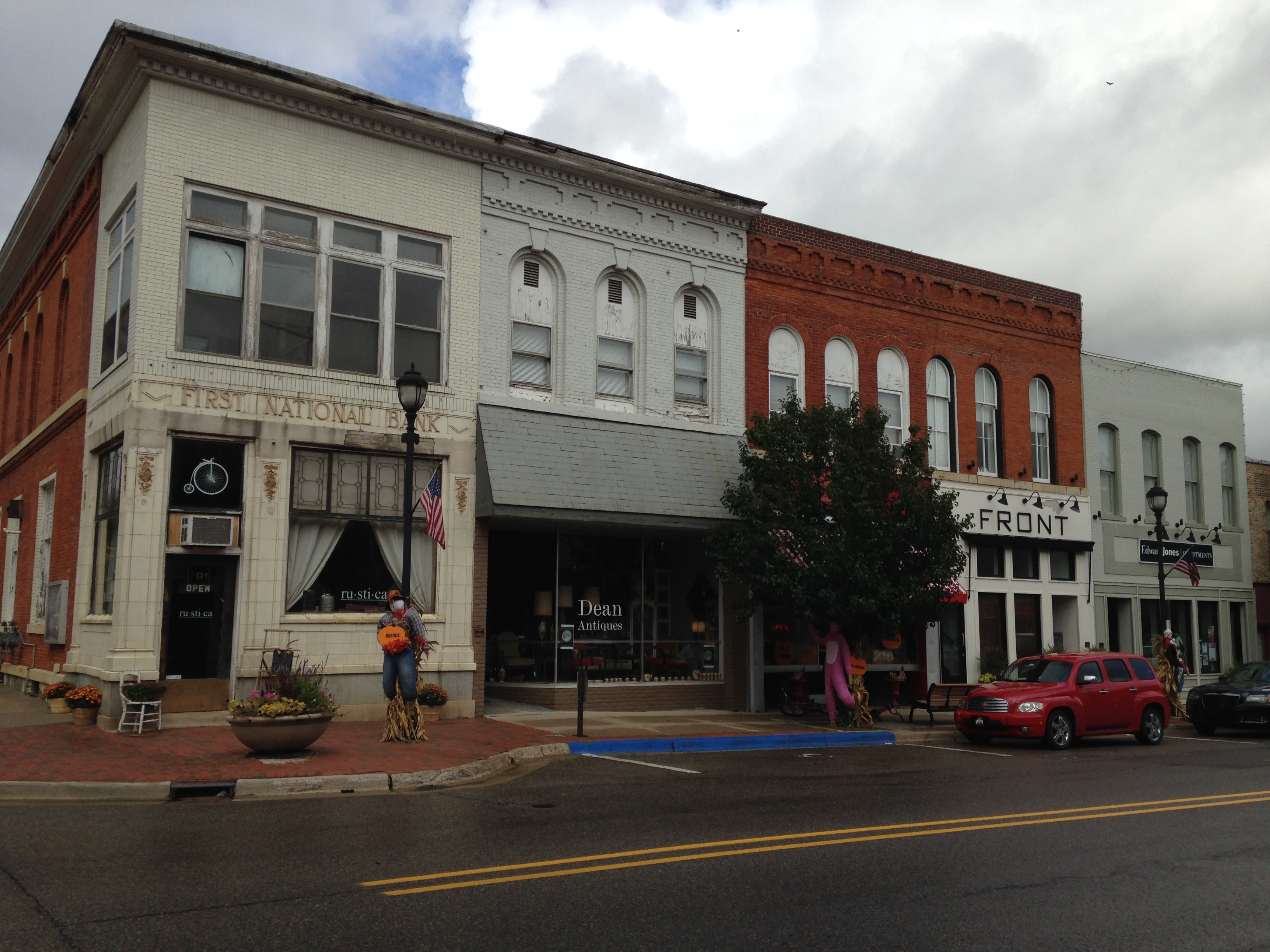 Buchanan Downtown Historic District, Front Street, between 117 West and 256 East; parts of Main Street, between 108 and 210-212; and 114 N. Oak Street Buchanan